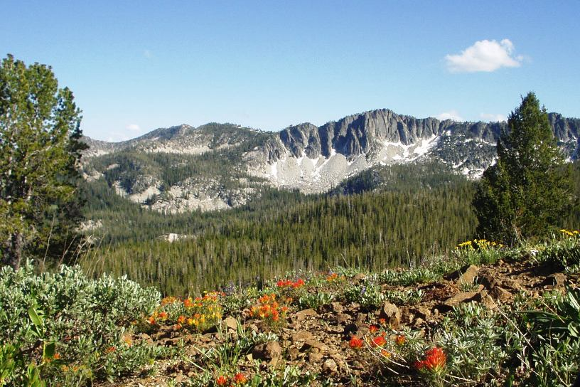 The Trinity Mountains and wildflowers in Boise National Forest, Idaho